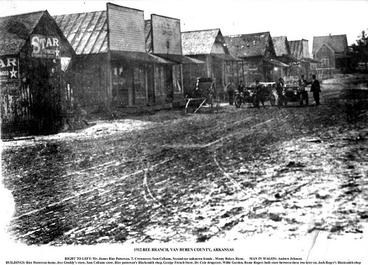 A photograph of Bee Branch, Arkansas in the year 1912.